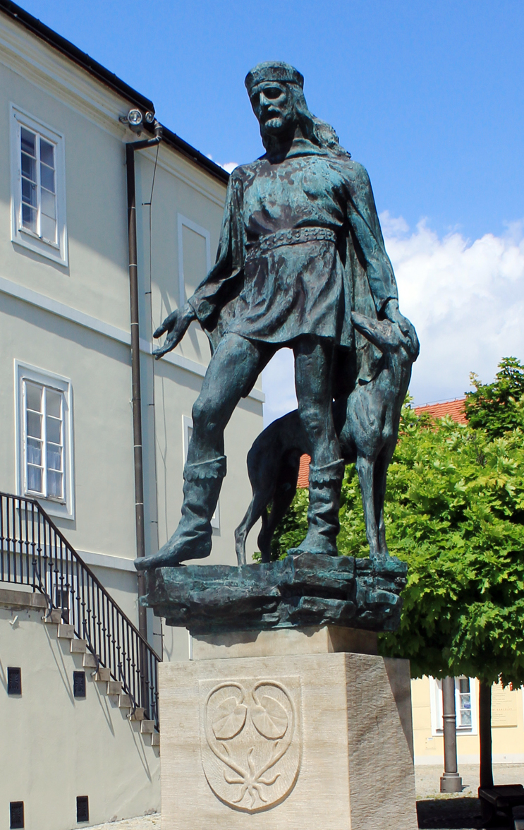 Statue of Jan Černčický z Kácova from sculptor Petr Novák in front Holy Trinity church on square in town Nové Město nad Metují, eastern Bohemia, Czech Republic